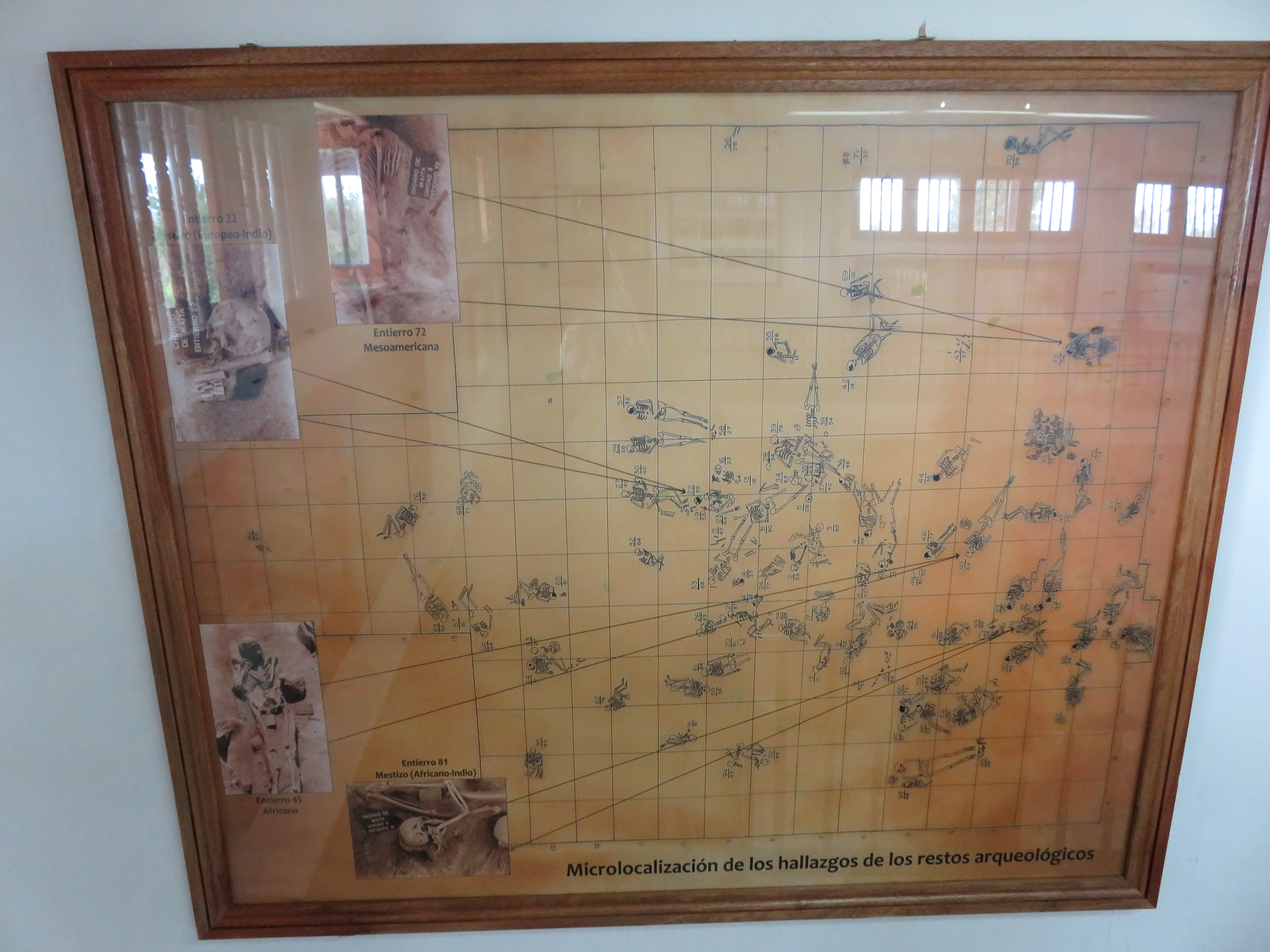 Diagram of El Chorro de Maita Burial Site in Cuba showing the various types of individuals buried there